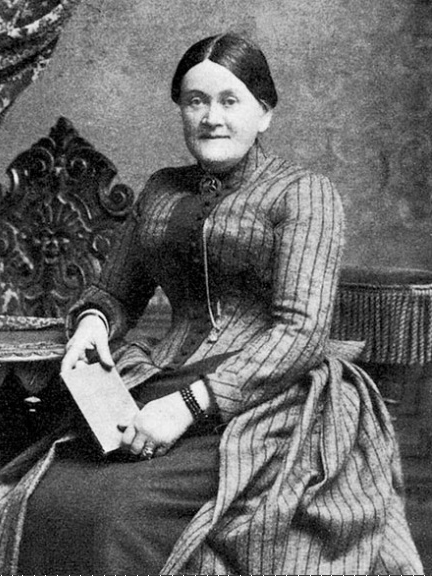 Ida Pauline Bäurlin (b. 7. Juni 1829)